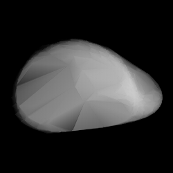 3D convex shape model of 3281 Maupertuis, computed using light curve inversion techniques. J. Hanuš, J. Ďurech, M. Brož, B. D. Warner (June 2011). "A study of asteroid pole-latitude distribution based on an extended set of shape models derived by the lightcurve inversion method". Astronomy and Astrophysics 530: A134. ISSN 0004-6361. arXiv